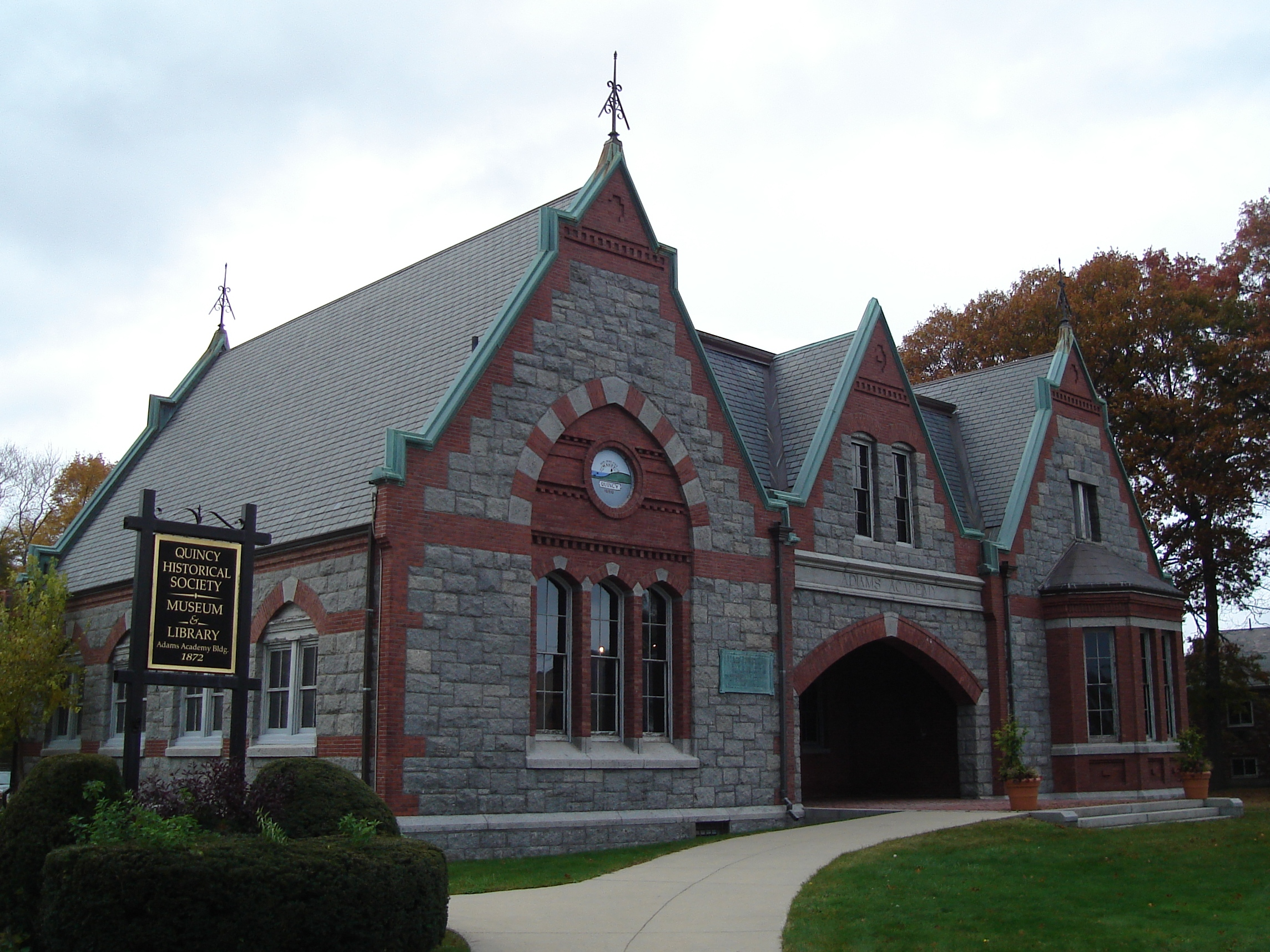 Adams Academy building in Quincy, Massachusetts, built in 1869 and added to the National Register of Historic Places in 1974. External link